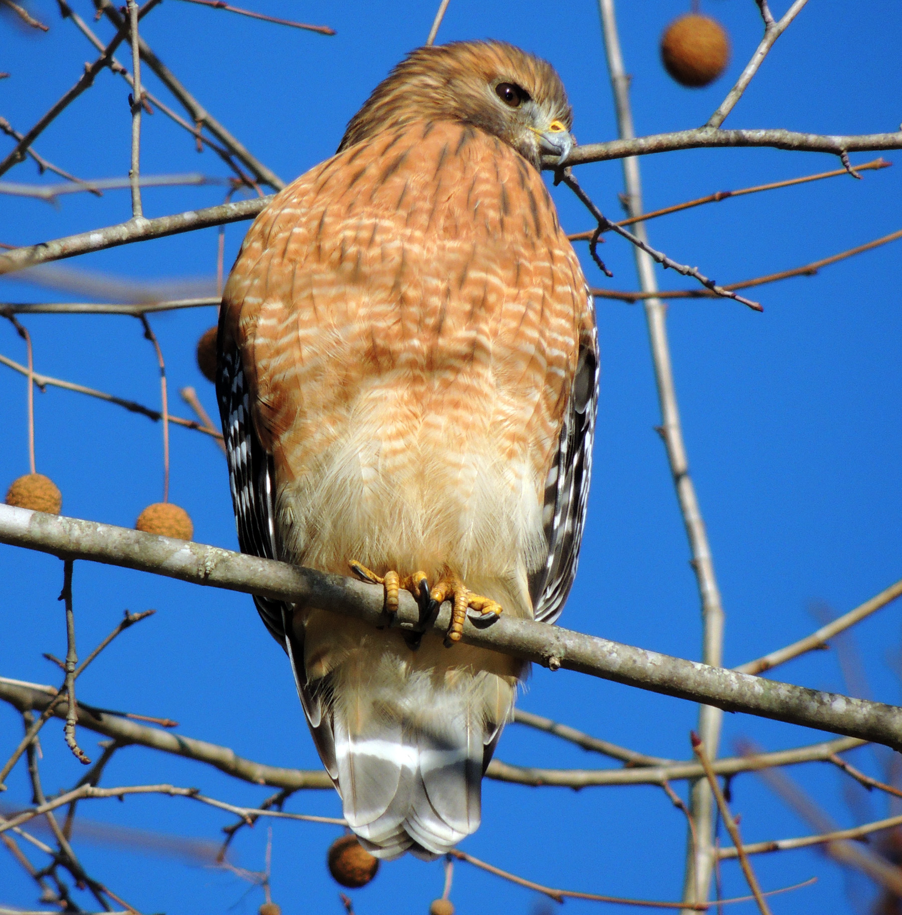 Taken near Neuse River, Raleigh, NC